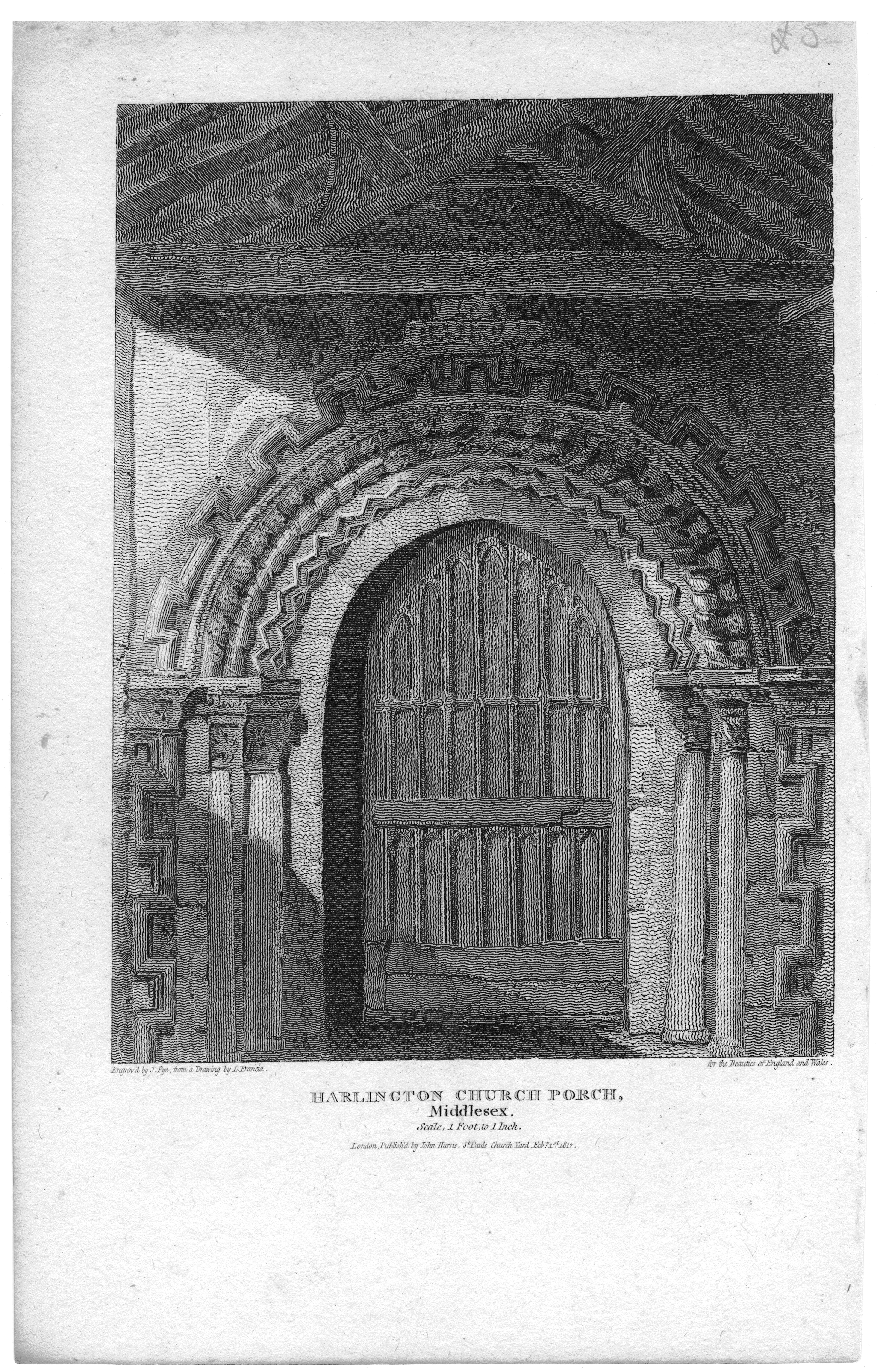 Scan (by me, R. de Salis, Rodolph (talk) 23:28, 6 October 2015 (UTC)) of Harlington church's porch, engraved by John Pye, drawn by L. Francia, for the Beauties of England and Wales, 1812, published by John Harris, London. Other information